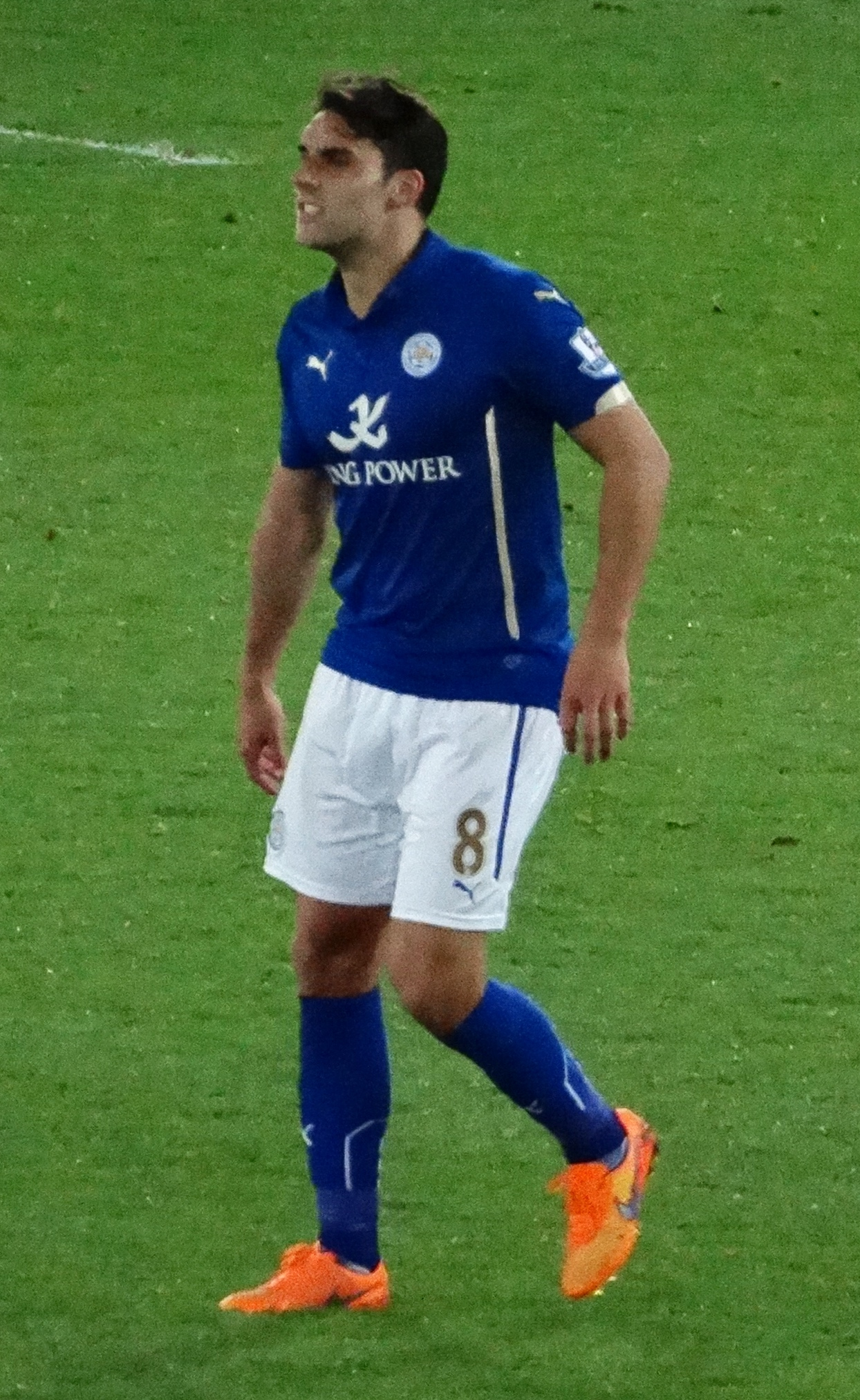 Matty James playing for Leicester City in April 2015